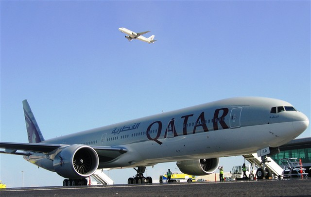 A Boeing 777-300ER (A7-BAA) from Qatar Airways